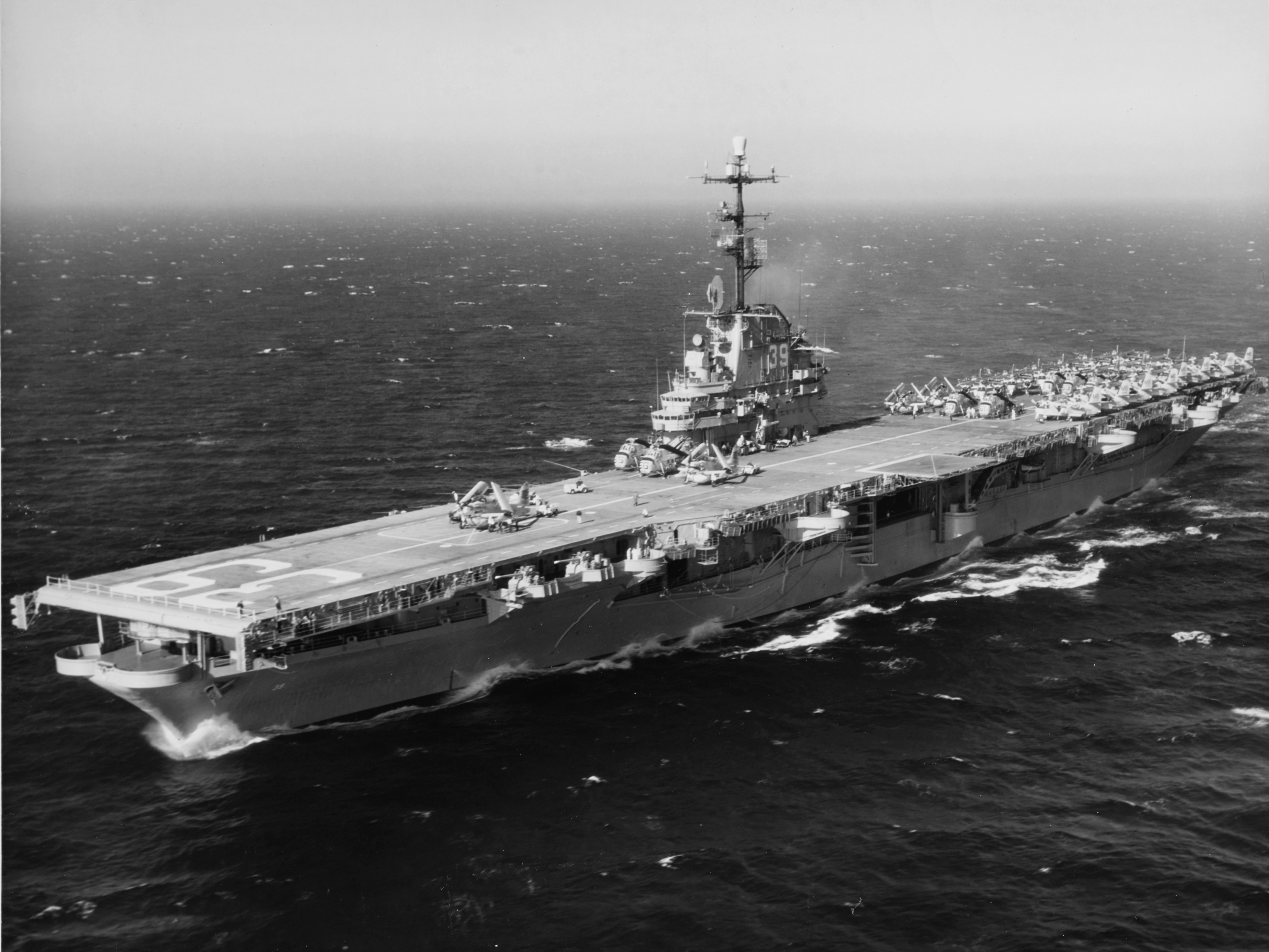 The U.S. Navy aircraft carrier USS Lake Champlain (CVS-39) at sea in July 1960 with various aircraft of Carrier Anti-Submarine Air Group 54 (CVSG-54) on deck. Visible are four Douglas AD-5W Skyraider AEW-aircraft of VAW-12 Det. 34 "Bats", several Sikorsky HSS Seabat helicopters of HS-5 "Nightdippers" and numerous Grumman S2F Tracker anti-submarine aircraft of VS-22 "Checkmates" and VS-32 "Norsemen".